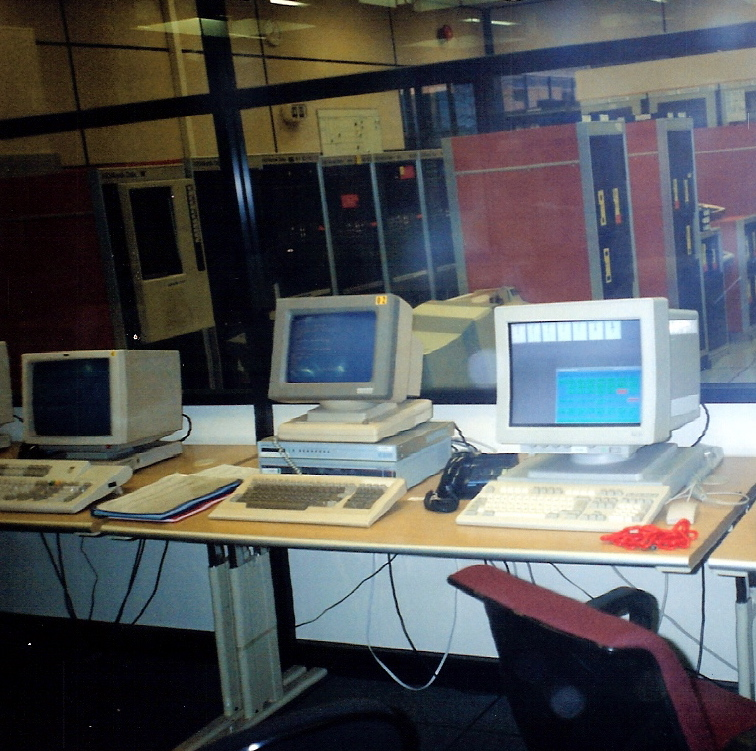 Taken in late 1991, this picture shows the old computer room in the background with the Norsk Data (ND) machines. These were 16 bit superminis from the 1980s. In the foreground one of the early replacements for the ND equipment. CODAS - the computer and control division at JET - was in a state of flux as we were leaving at the end of 1991, moving away from the ND machines onto Sun's SPARC platform.